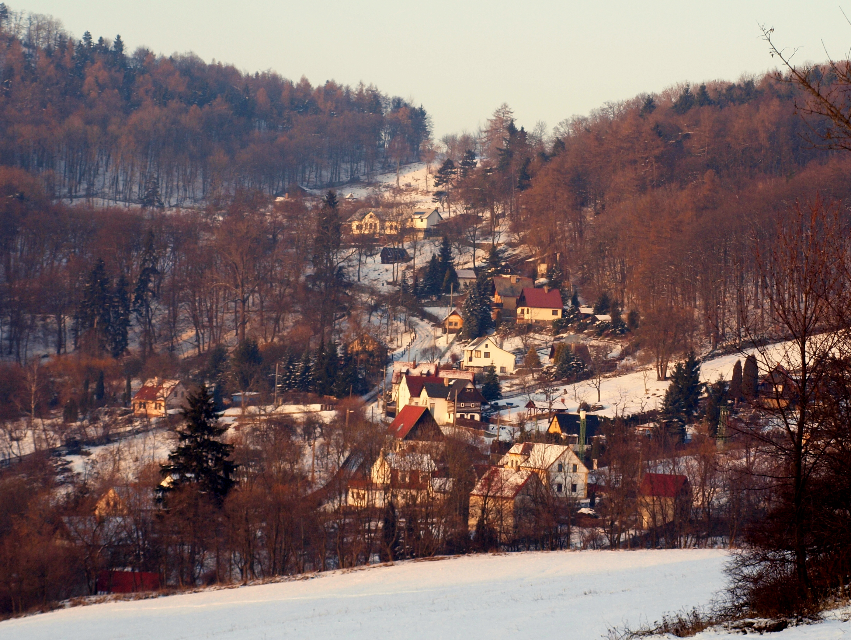 Kundratice near Hlinna